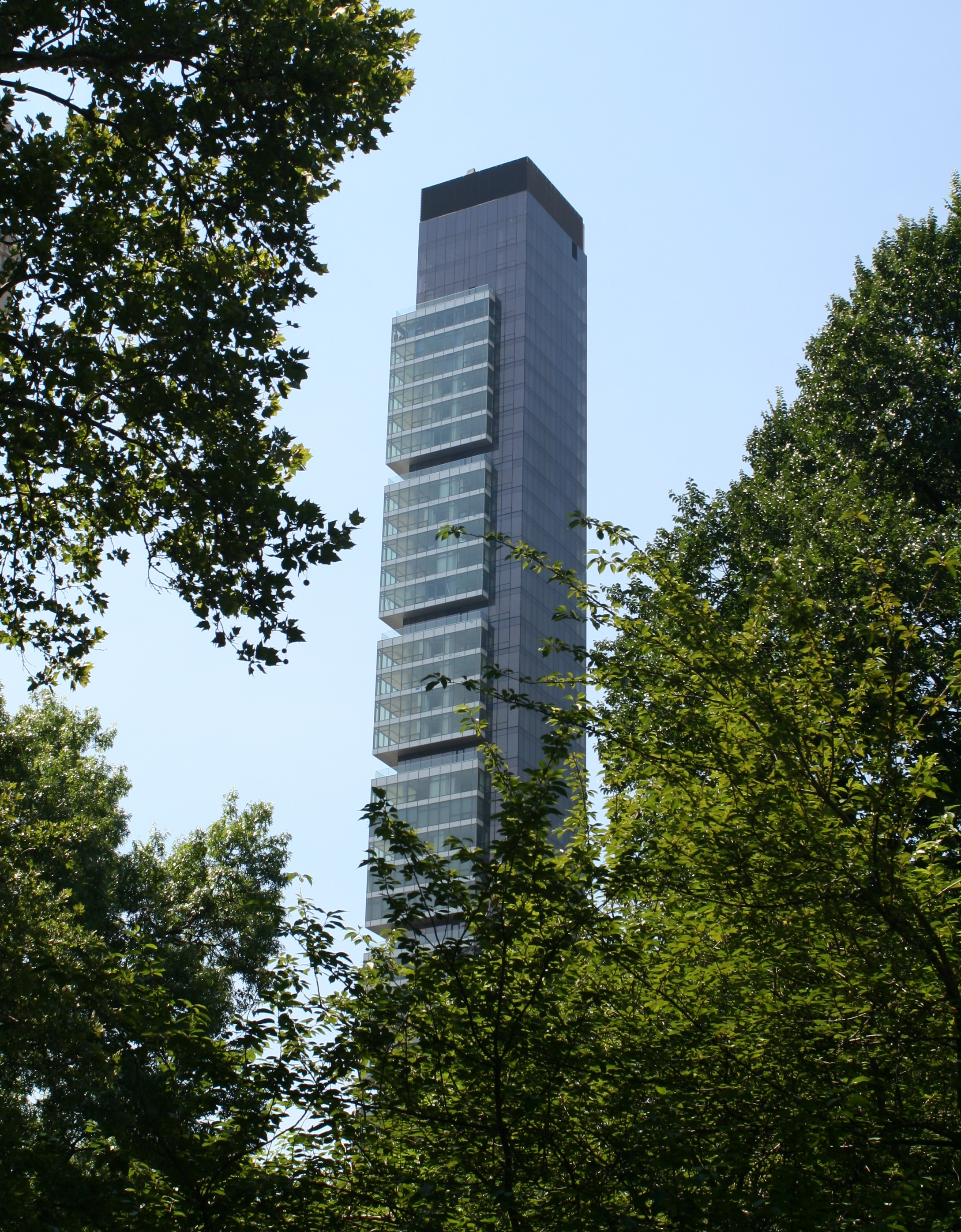 One Madison Park as seen from Madison Square Park